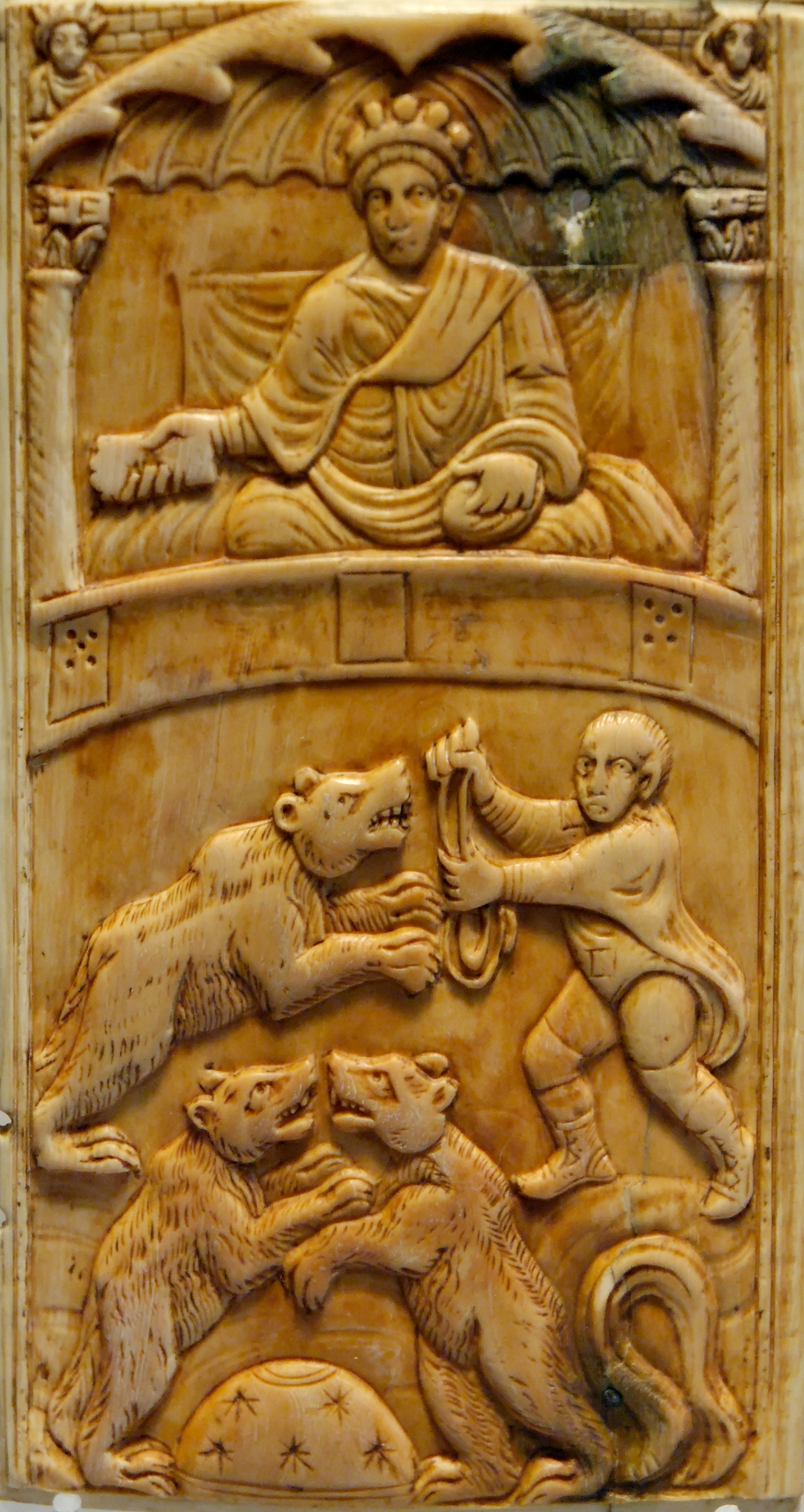 Roman games: bears fighting. Right leaf from a diptych, coloured ivory, ca. 400 CE.